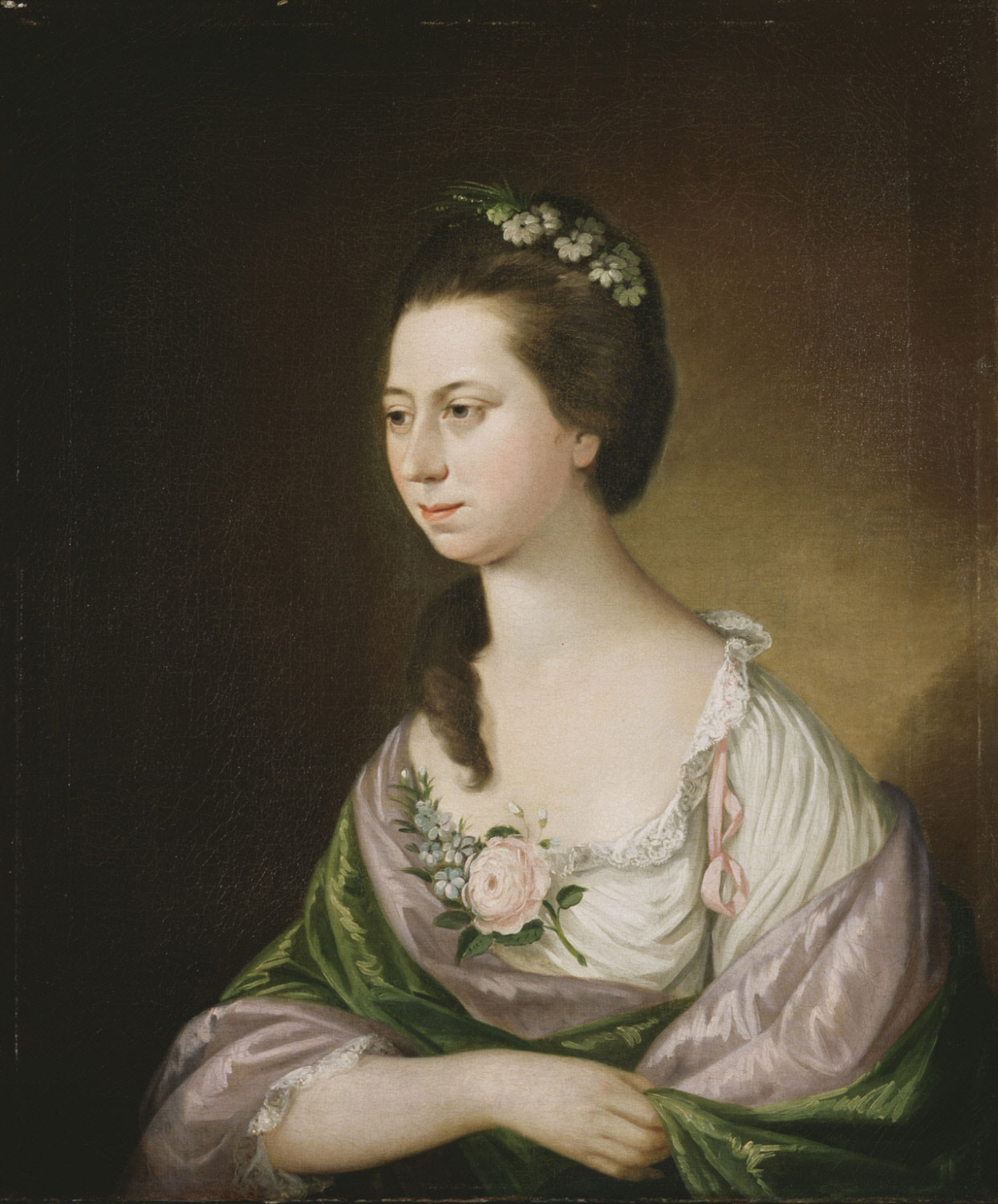 Matthew Pratt, Portrait of Mrs. Samuel Powel (née Elizabeth Willing), 1768-1770, Philadelphia Museum of Art, Purchased with the George W. Elkins Fund, 1973